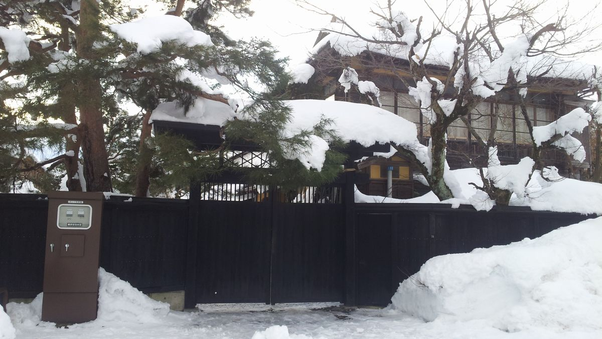 Rear entrance of the Yamakichi Fertilizer Store